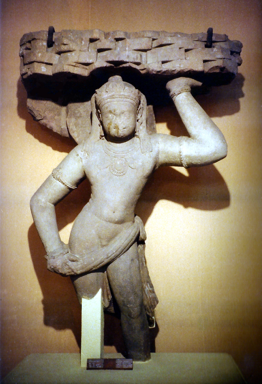 Krishna Govardhana. Gupta, 4th - 6th century Bharat Kala Bhavan, Varanasi, India. This important early sculpture shows Krishna as he holds up Mt. Govardhana to shelter his disciples from a storm. The weight of the mountain does not stiffen Krishna's relaxed, tribhanga posture. The god's arms have been restored; the originals would have been more slender and graceful. Bharat Kala Bhavan is a museum on the campus of Benares Hindu University.